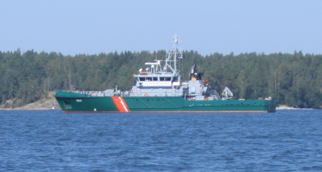 A vessel of the Finnish Coast Guard, "Tavi". Photo taken in Sipoo, Finland.